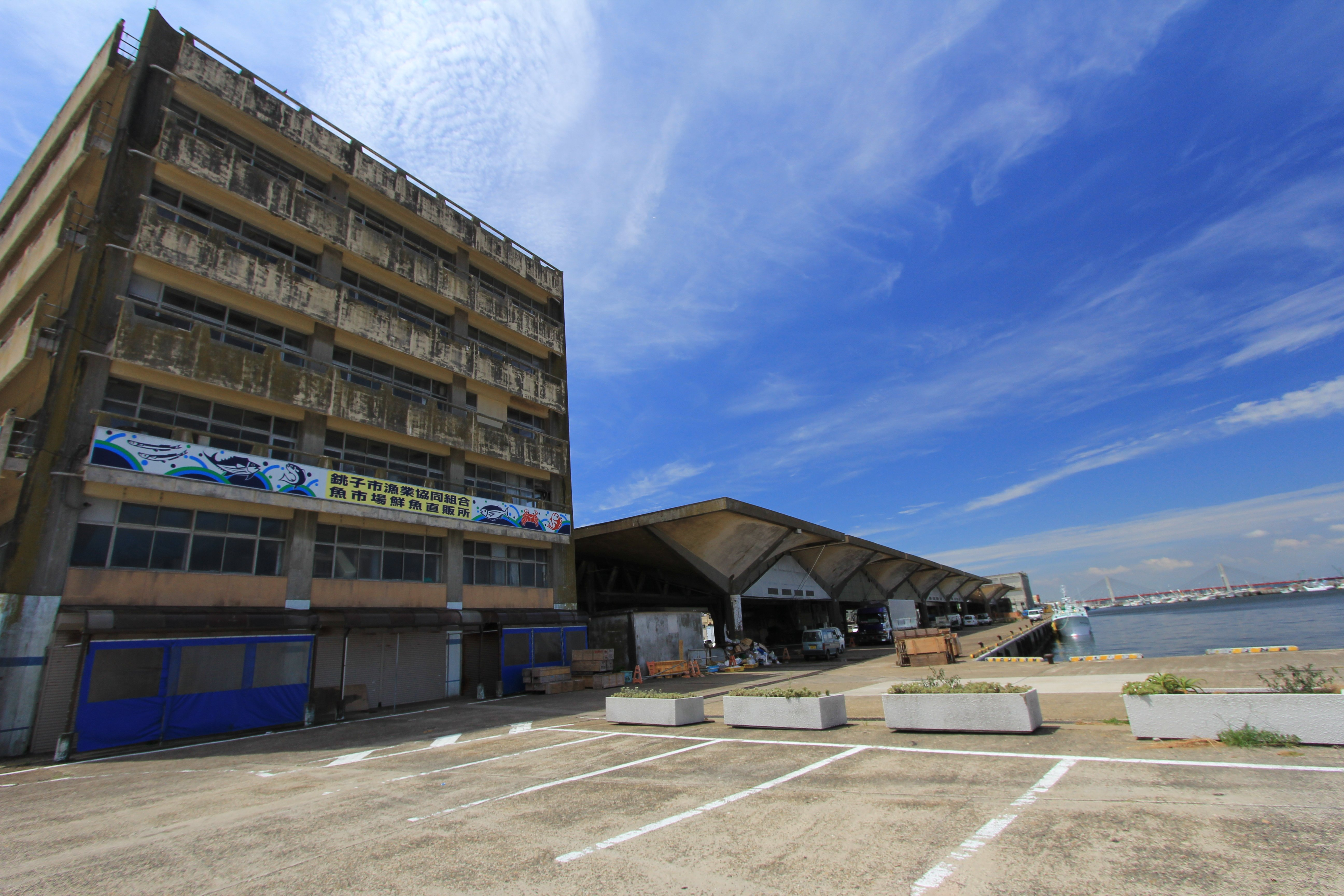 Choshi Fishing Port #1 Wholesale Market